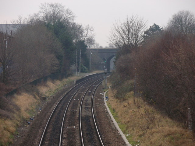 Peartree railway station near Derby